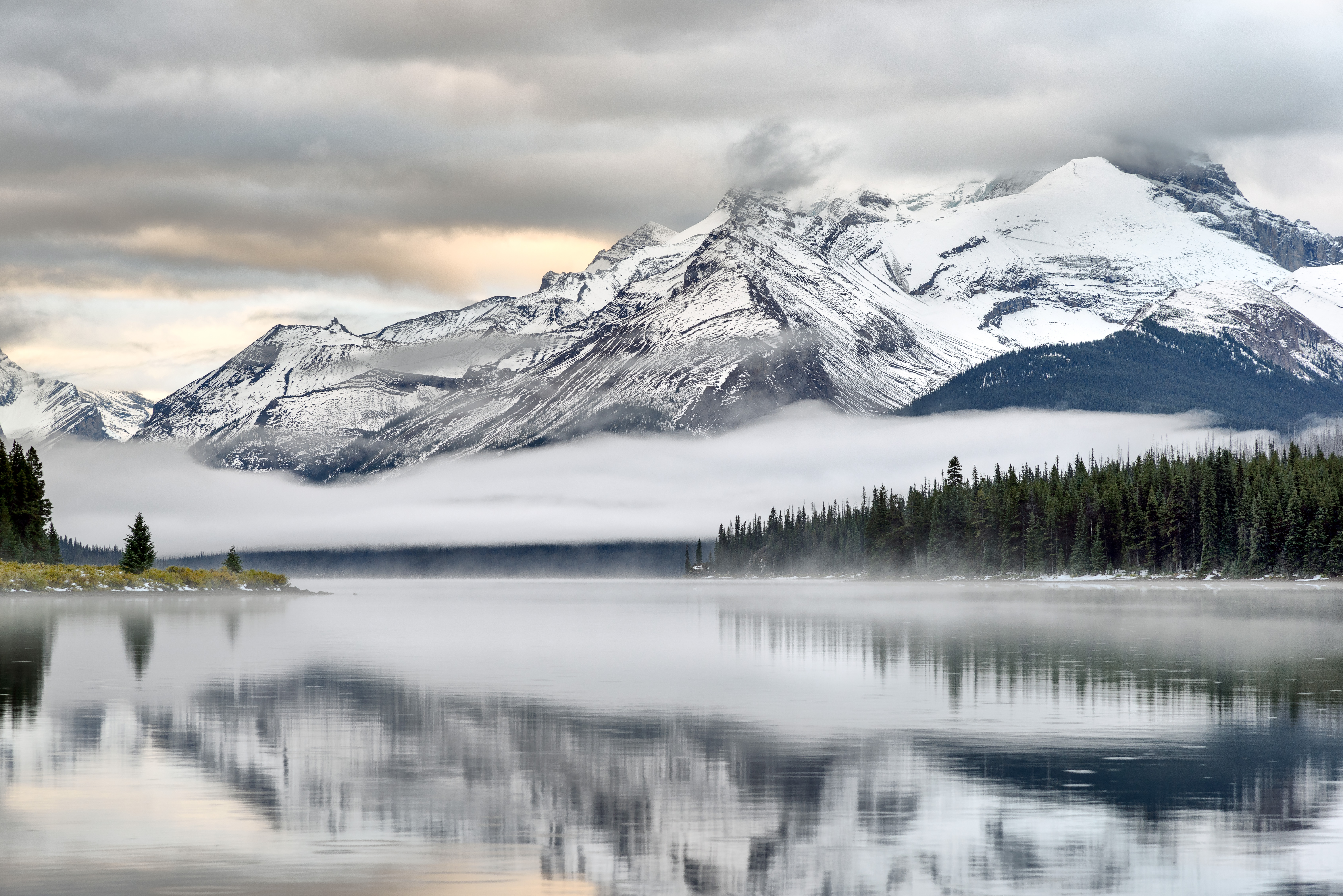 Canada, Jasper National Park. Sunrise at Maligne lake. This photo was taken in a protected area in Canada, Wikidata item Jasper National Park (Q503429)